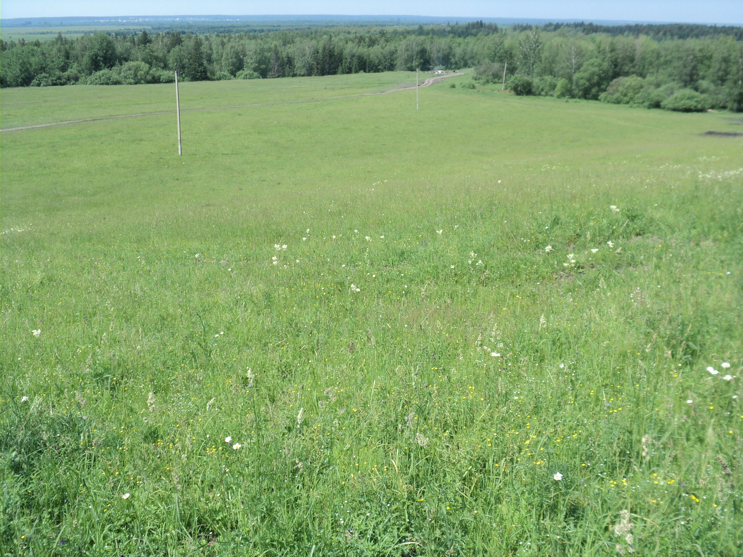 Meadow landscape in Tomsky District, Tomsk Oblast, Russia